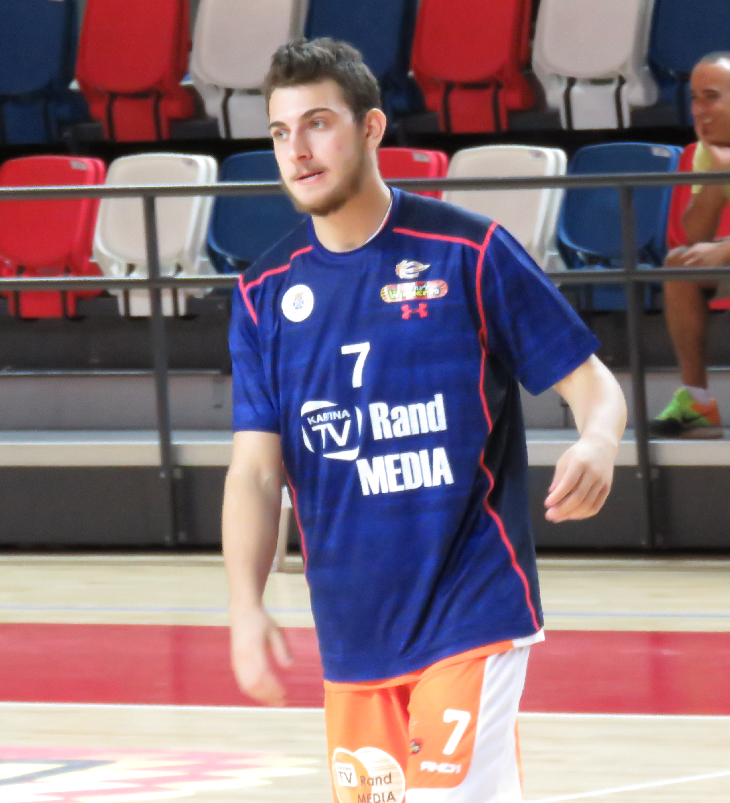 Maccabi Rishon LeZion vs. Maccabi Tel Aviv B.C., 26 September, 2015